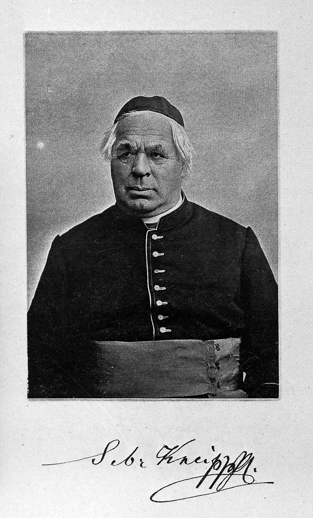 Portrait of Sebastian Kneipp. General Collections Keywords: Sebastian Kneipp